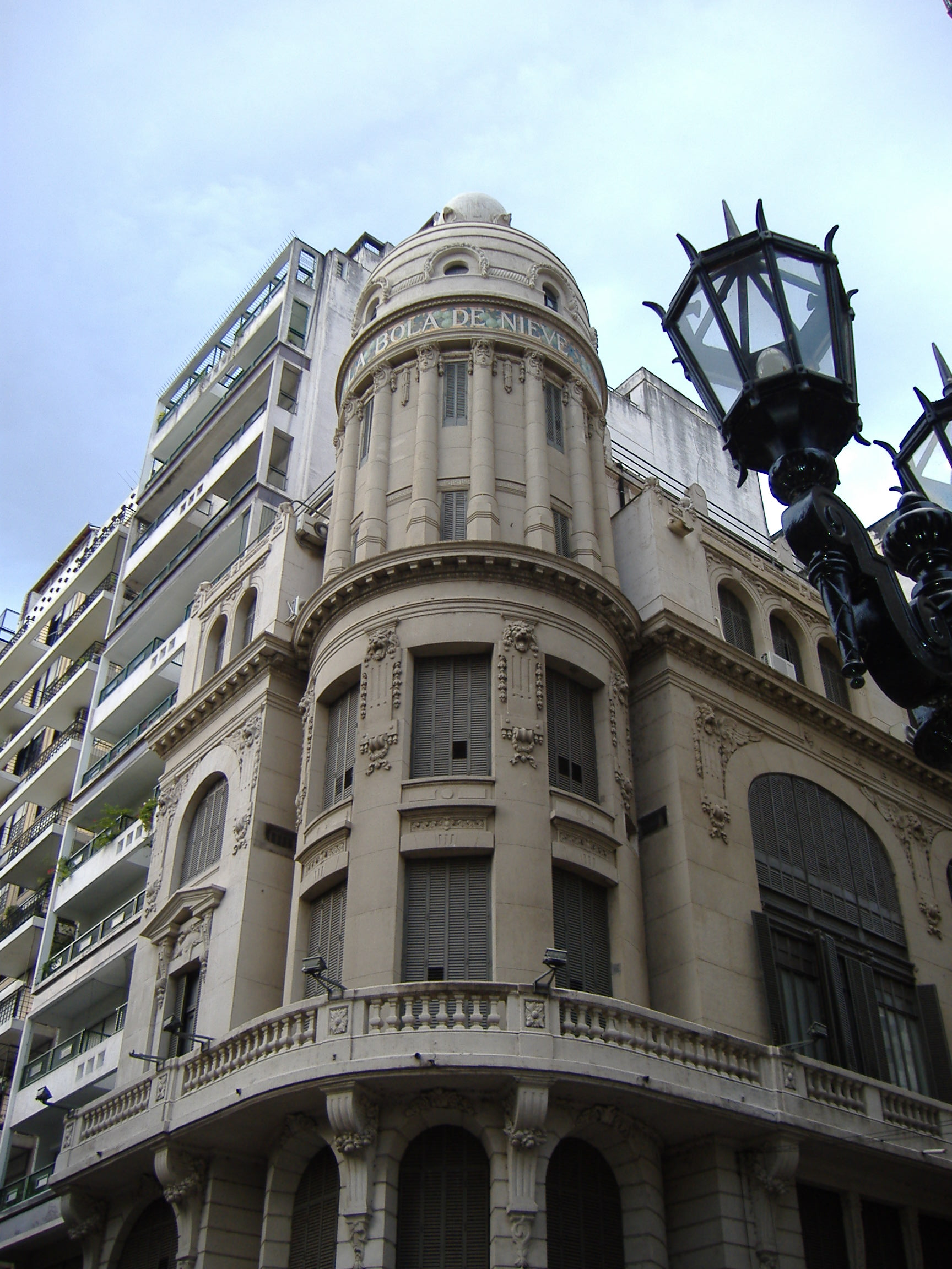 The building called La Bola de Nieve ("The Snowball") in Rosario, Argentina (Buenos Aires St. & Córdoba St.). I, Pablo D. Flores, took this picture on 28 February 2006.